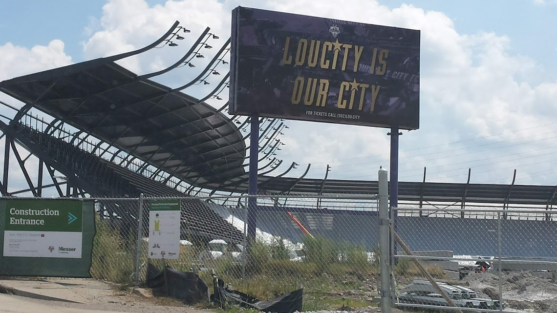 Lynn Family Stadium, Louiville KY Aug 2019